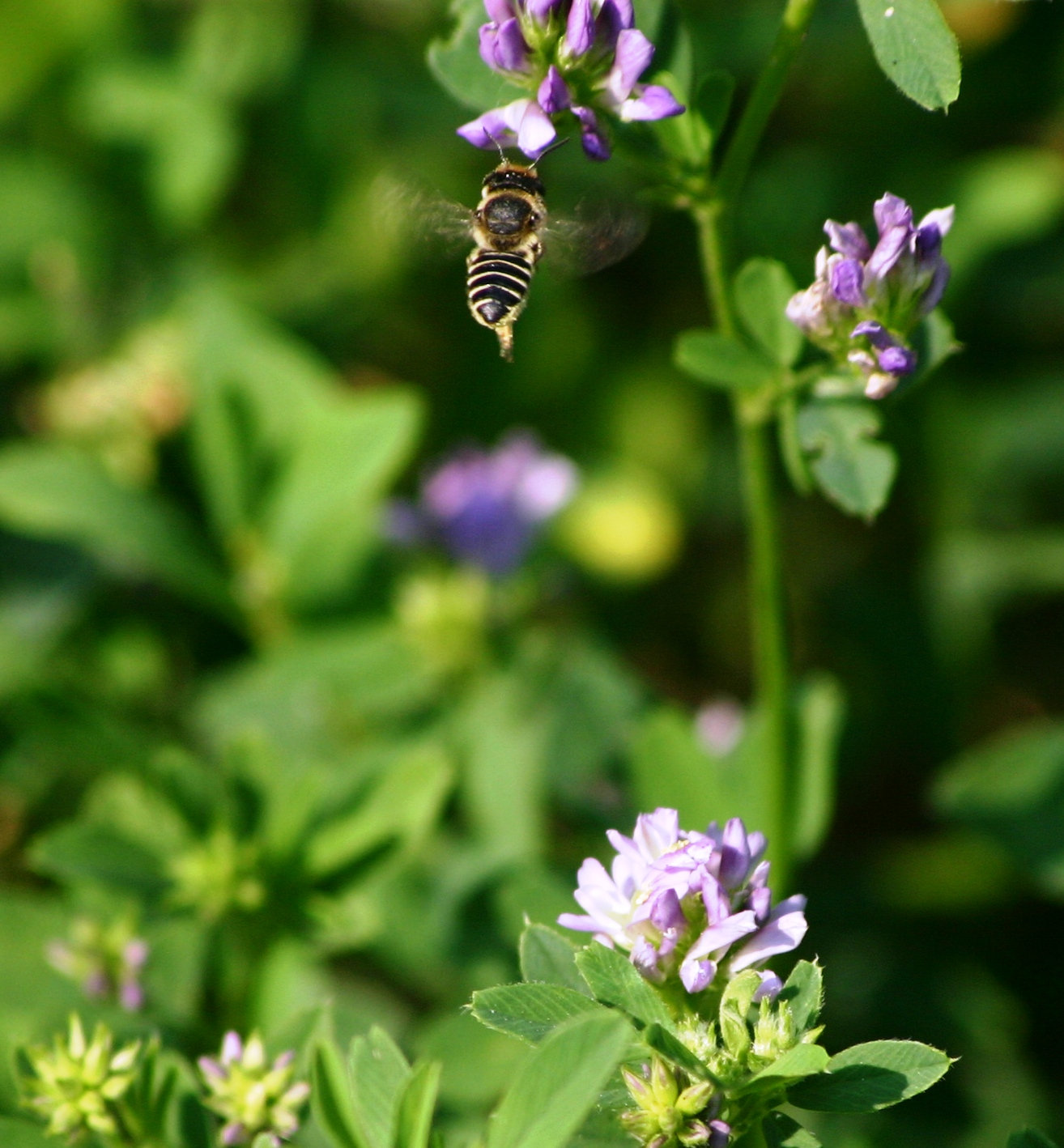 Megachile rotundata, pollinator on alfalfa flower. Western NY State